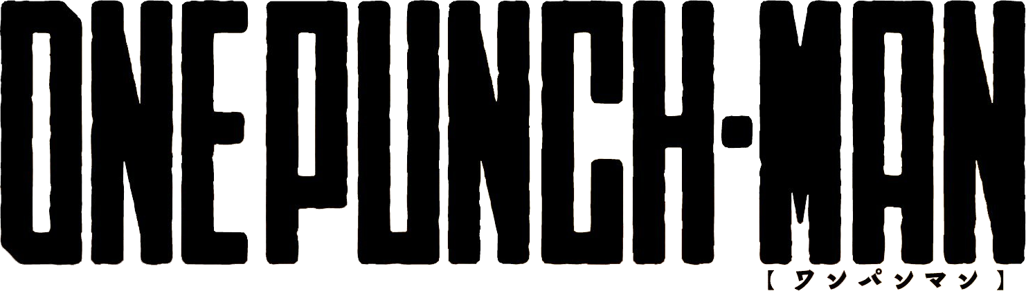 One-Punch Man's logotype